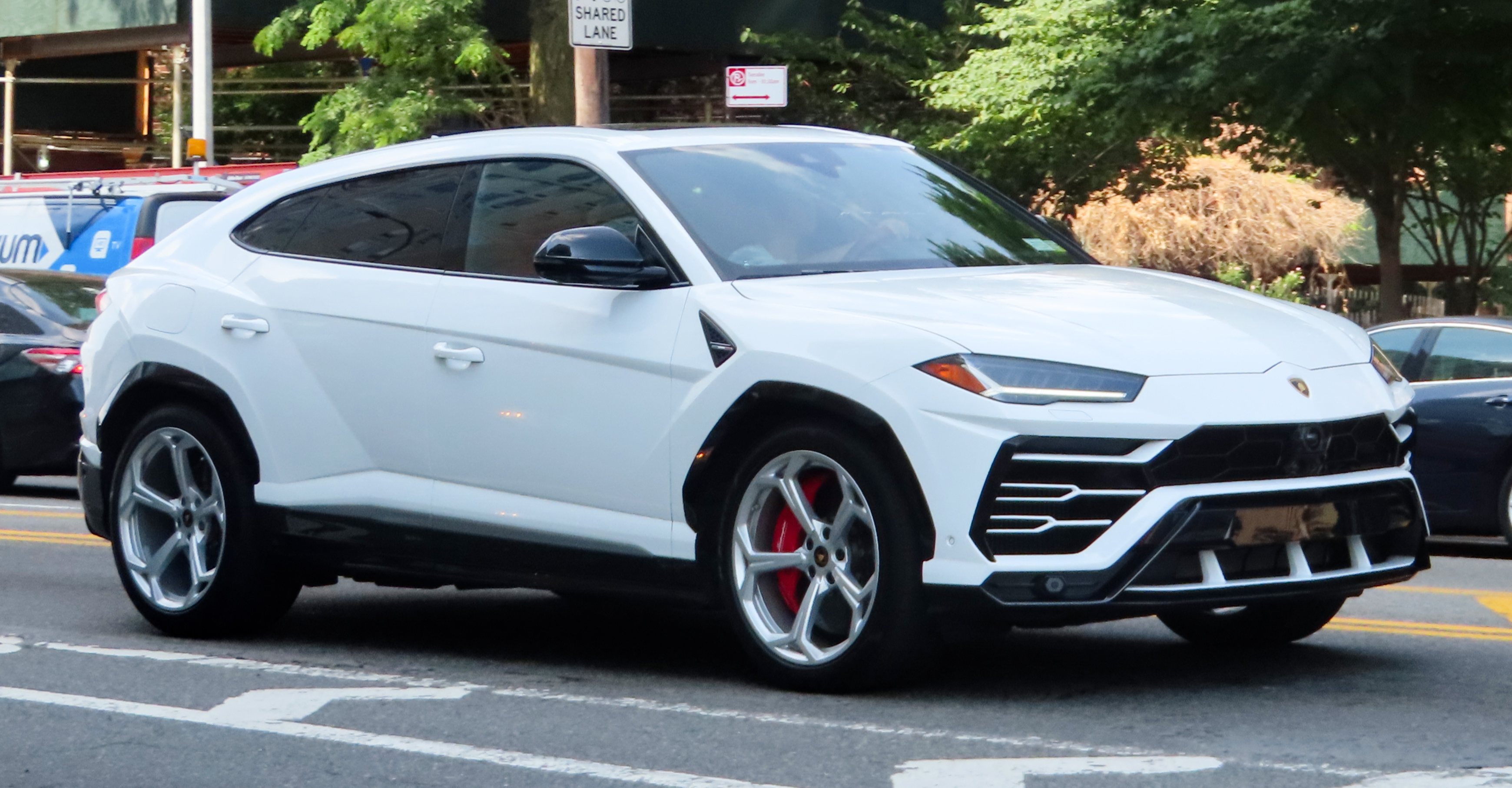 A 2019 Lamborghini Urus photographed in Flushing, Queens, New York, USA